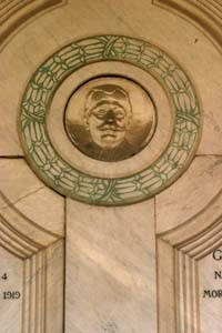 Photo of work by Mario Sarto, to go onto his page.